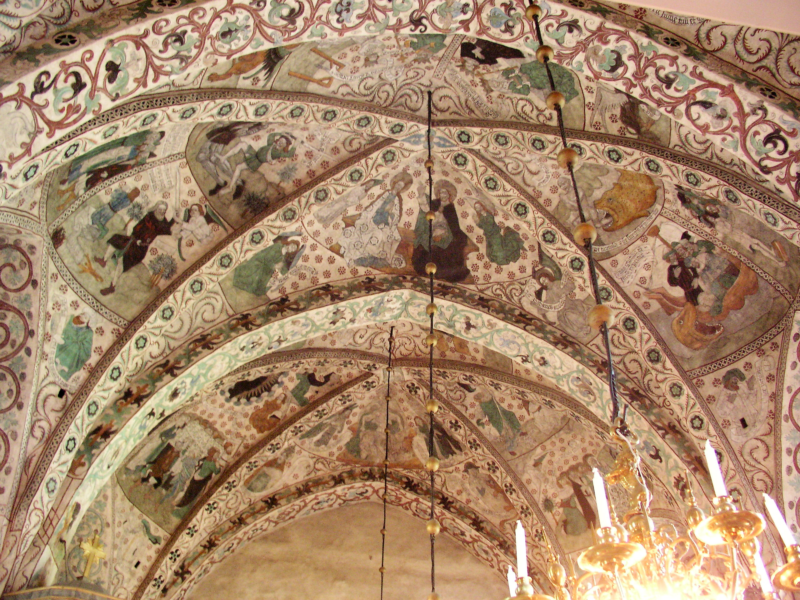 Täby kyrka, Diocese of Stockholm. Ceiling paintings. The photo was taken the 16th of August 2003 by Håkan Svensson (Xauxa).